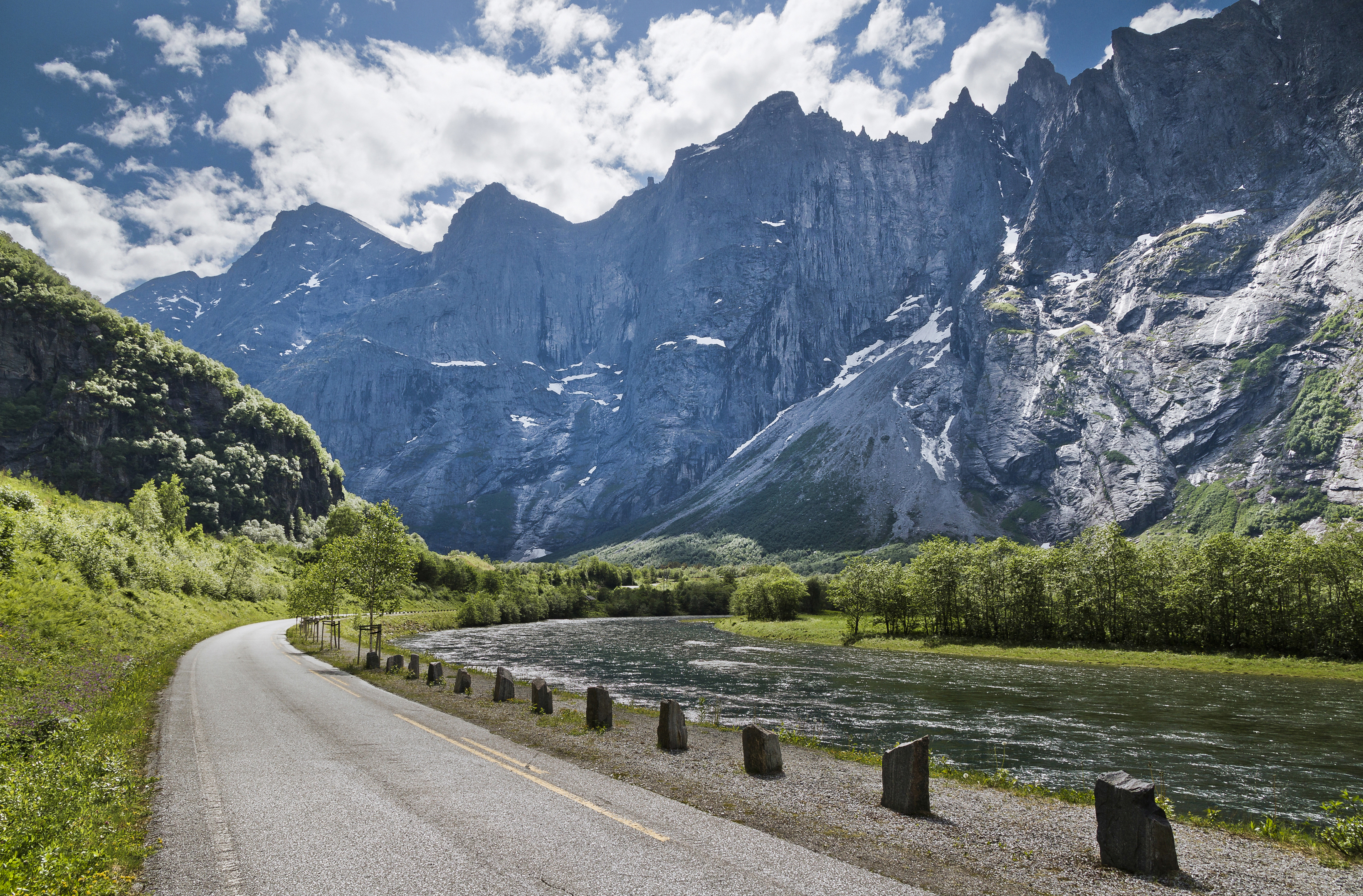 A view to Romsdalen from Vadstranda by the Rauma river in 2013 June. The mountains above belong to Trolltindene group. Among them is Trollveggen, one of the tallest pure vertical mountain faces in the world.